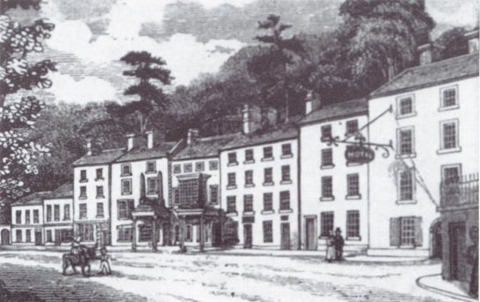 Museum Parade a "Matlock Companion", 1832 The building with large entranceway and bay window was John Mawe's Museum, while the extended entrance next door was to Vallance's Royal Centre Museum - a Valance and Samuel Rayner partnership